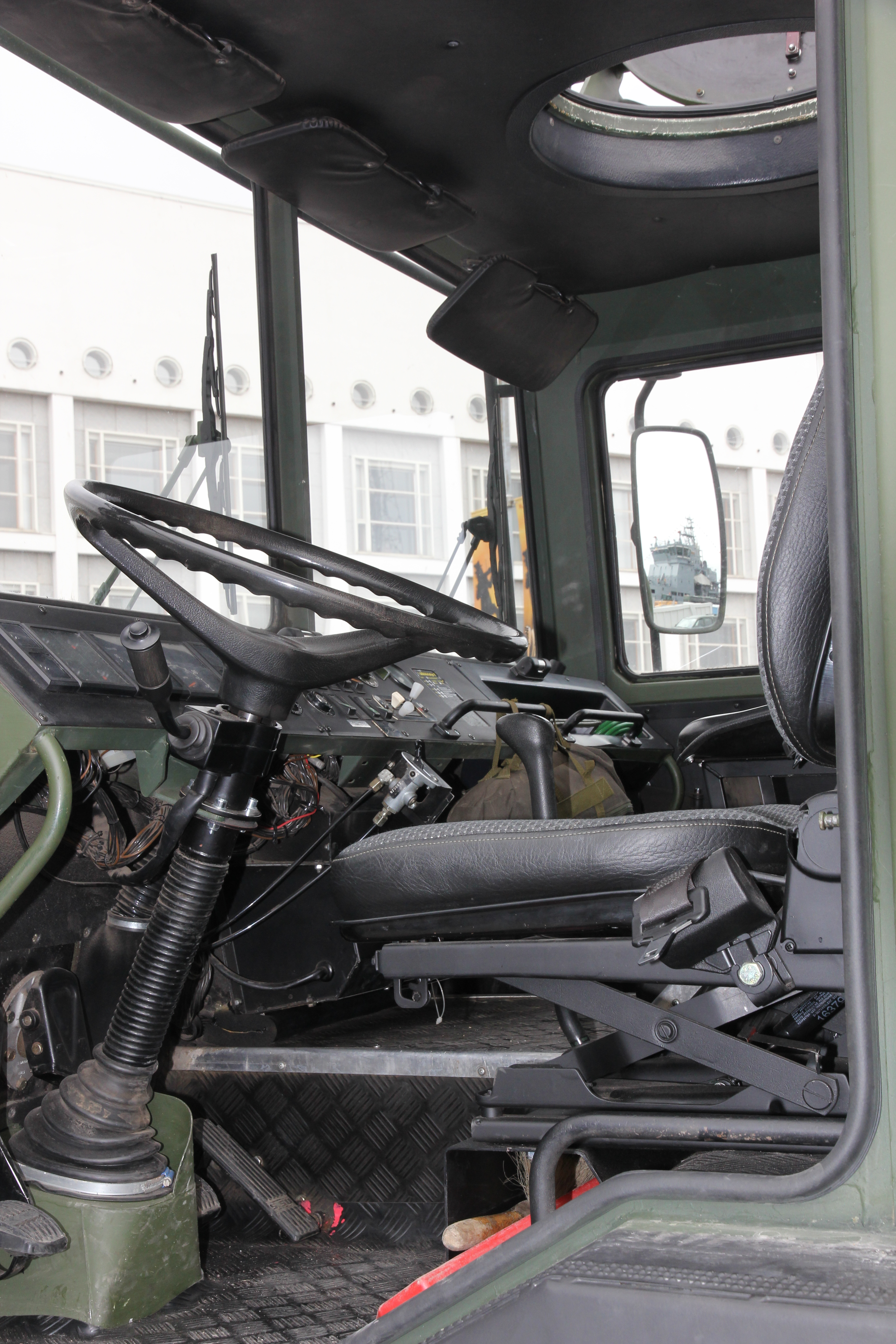 Sisu SA-240/241 military truck cockpit on display during the Finnish Navy 2012 anniversary.